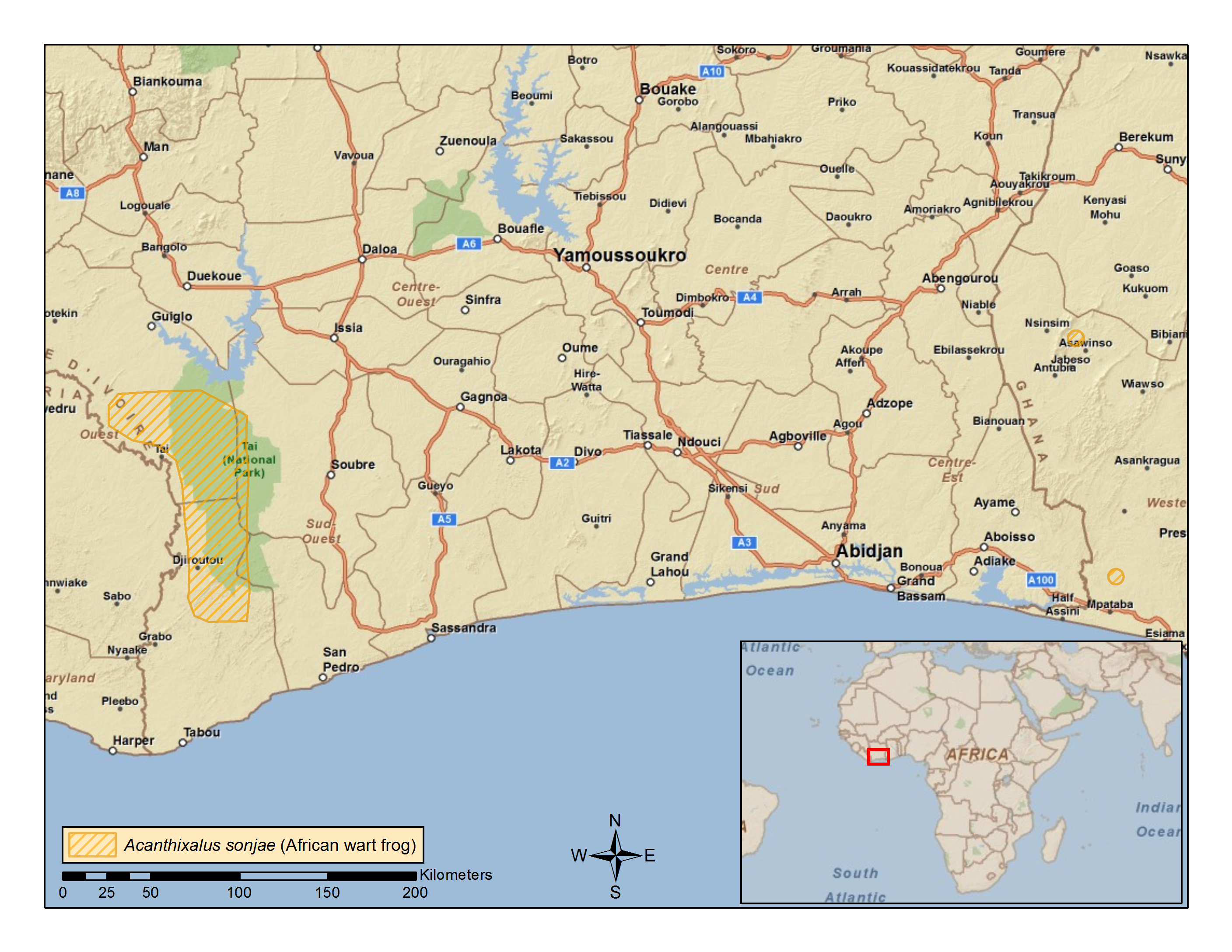 Map of the IUCN distribution of Acanthixalus sonjae (African wart frog).